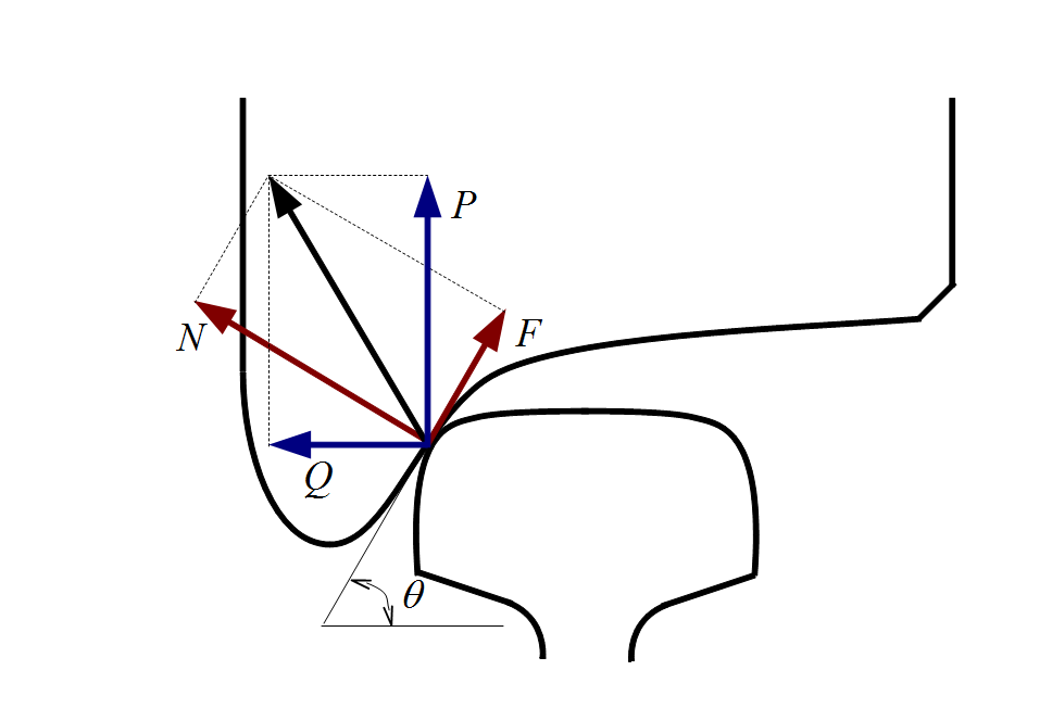 Forces acting on wheel at flange contact location. N is normal load, F is tangential force, Q is lateral force, P is vertical force, θ is flange angle. Derailment coefficient is defined as Q/P